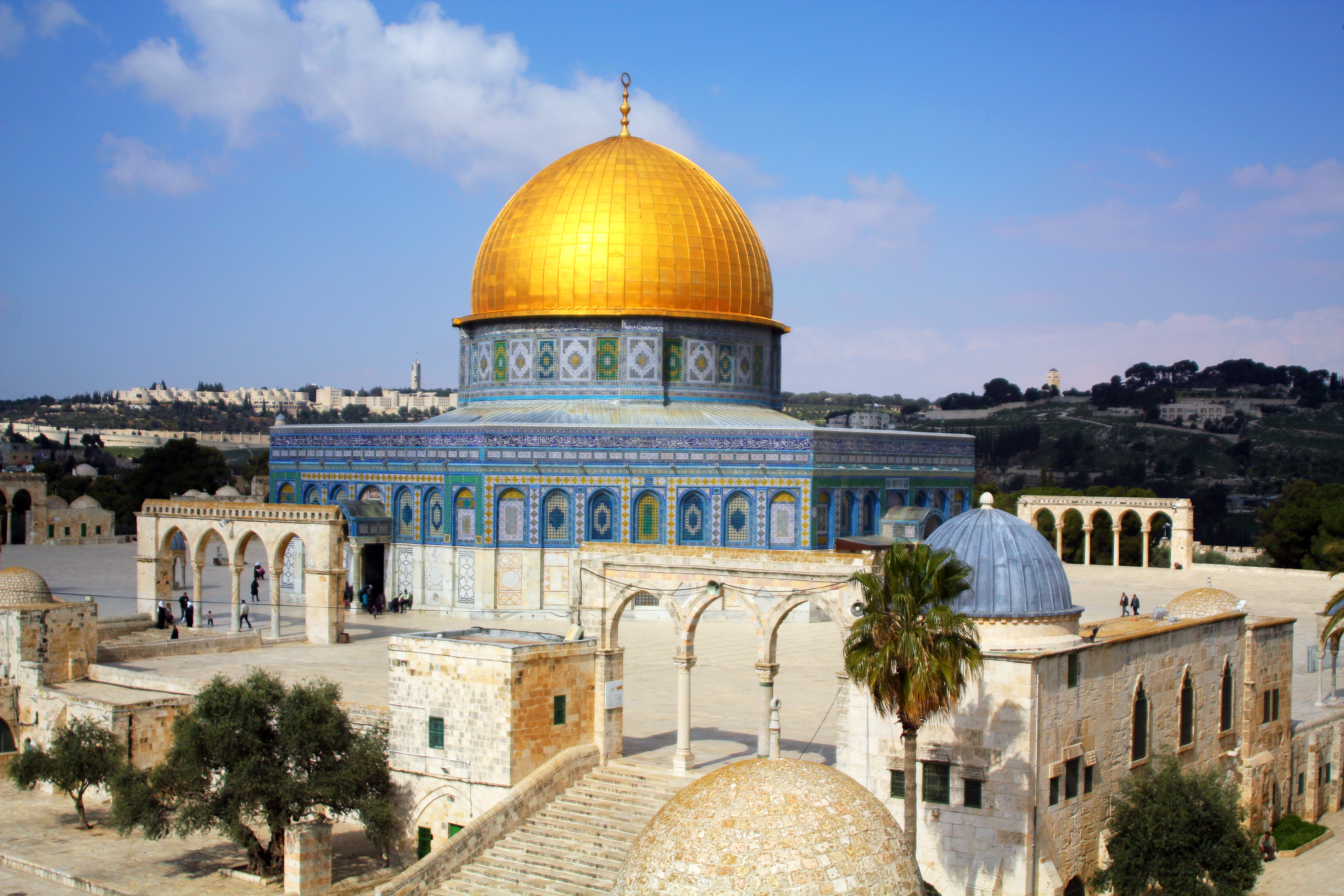 Dome of Rock, Temple Mount, Jerusalem